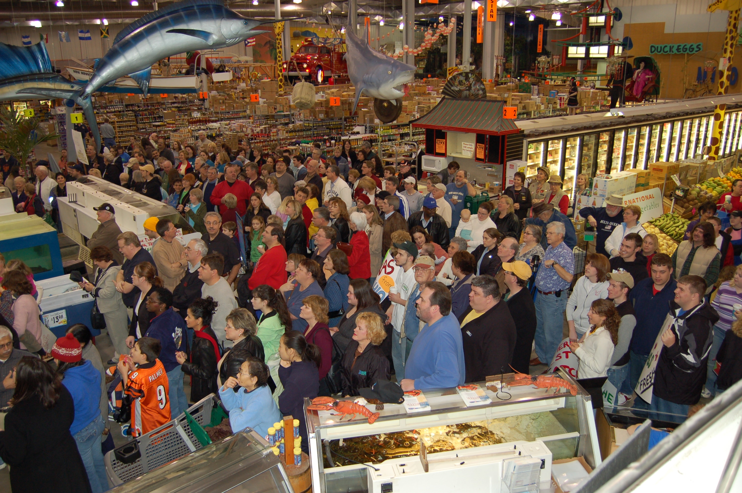 A crowd gathers to watch Good Morning America's broadcast live from the seafood department of Jungle Jim's in Fairfield.